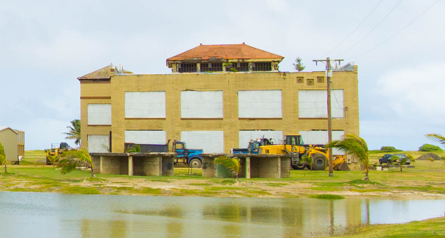 Marconi Telegraph Station Kahuku, Oahu, Hawaii